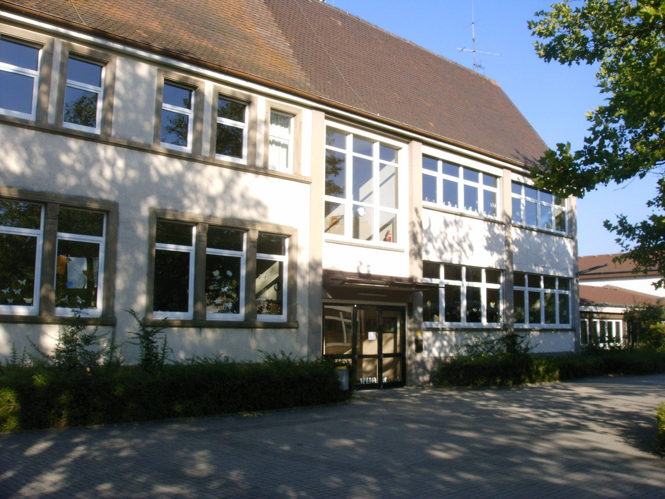 Old school house from 1910 in Ottersdorf (part of Rastatt, Germany)